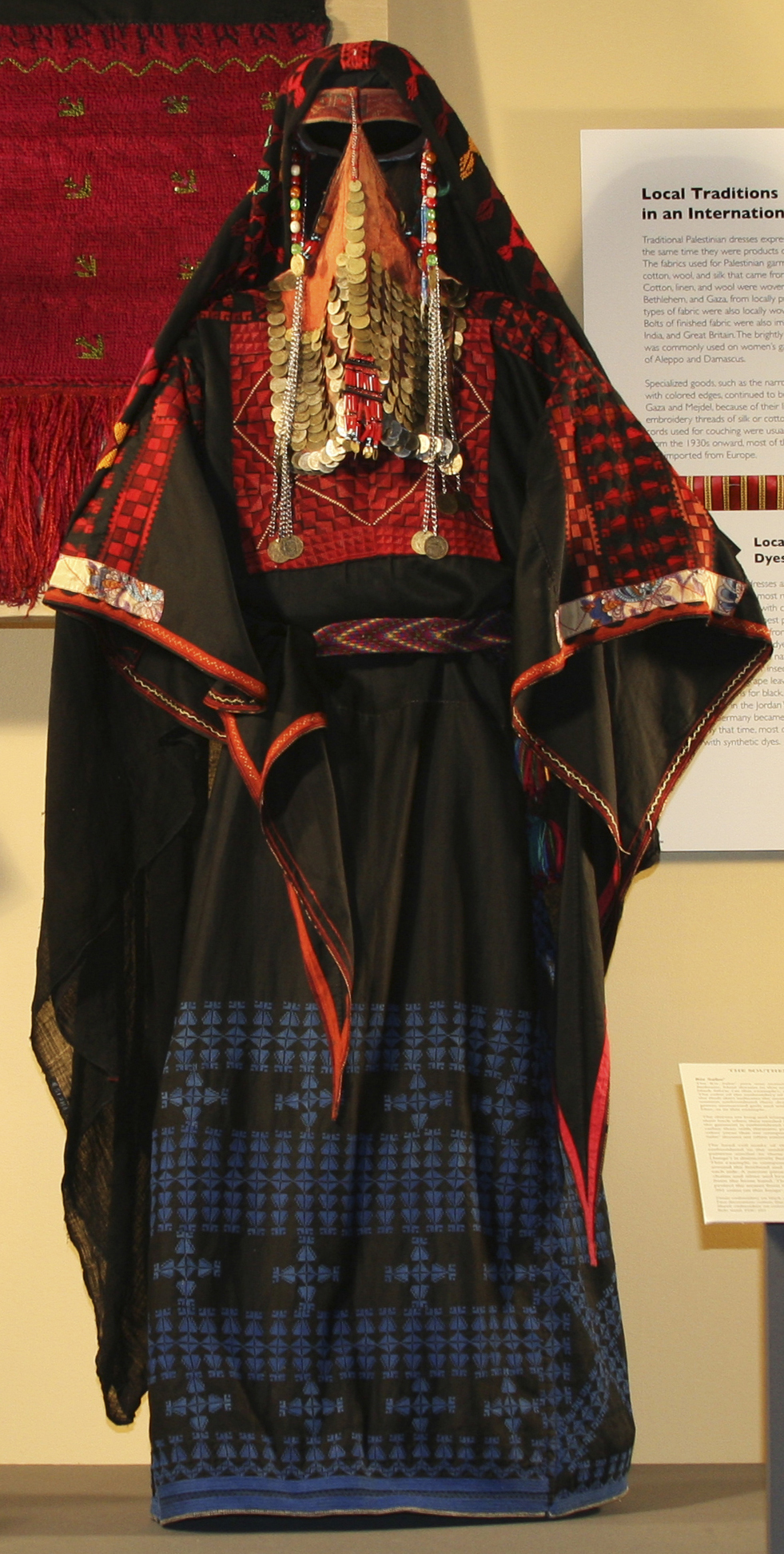 Photo of installation at the Oriental Institute Museum Bir Sabe‘ The Bir Sabe‘ area was mainly inhabited by semi-nomadic Bedouin. Most dresses in this area were made of a dark blue or black fabric (as this example), embroidered with bright colors. The color of the embroidery of the lower back and front part of the thob skirt indicates the woman’s marital status. Only married women embroidered their dresses in red, orange, yellow, and green; unmarried girls and widows embroidered their dresses in blue, as in this example. The sleeves are long and triangular, and women tied them behind their back when they needed to work. As is typical in this region, the garment is embroidered with stylized geometric cross-stitch rather than with thematic patterns. In contrast to dresses from other areas that are composed of different types of fabric, Bir Sabe‘ dresses are often entirely of the same material. The head veil made of the blue or black cotton material is embroidered in the middle in reds, orange, and green with patterns similar to those on the dress. The face decoration (burqa‘) is distinctively Bedouin and is worn by married women. This example is composed of an embroidered band fastened around the forehead and ornamented with beads and coins on each side. A narrow piece of fabric adorned with coins on silver chains and silver and brass coins stitched onto the fabric hangs from the brow band. The burqa‘ was worn for modesty and to protect the wearer from the heat and sand of the desert. There are 301 coins on this burqa‘. Dress: embroidery on black cotton, PHC 150 Face decoration: cotton, fine linen, silver coins, PHC 151 Shawl: embroidery on cotton, PHC 153 Belt: wool, PHC 203